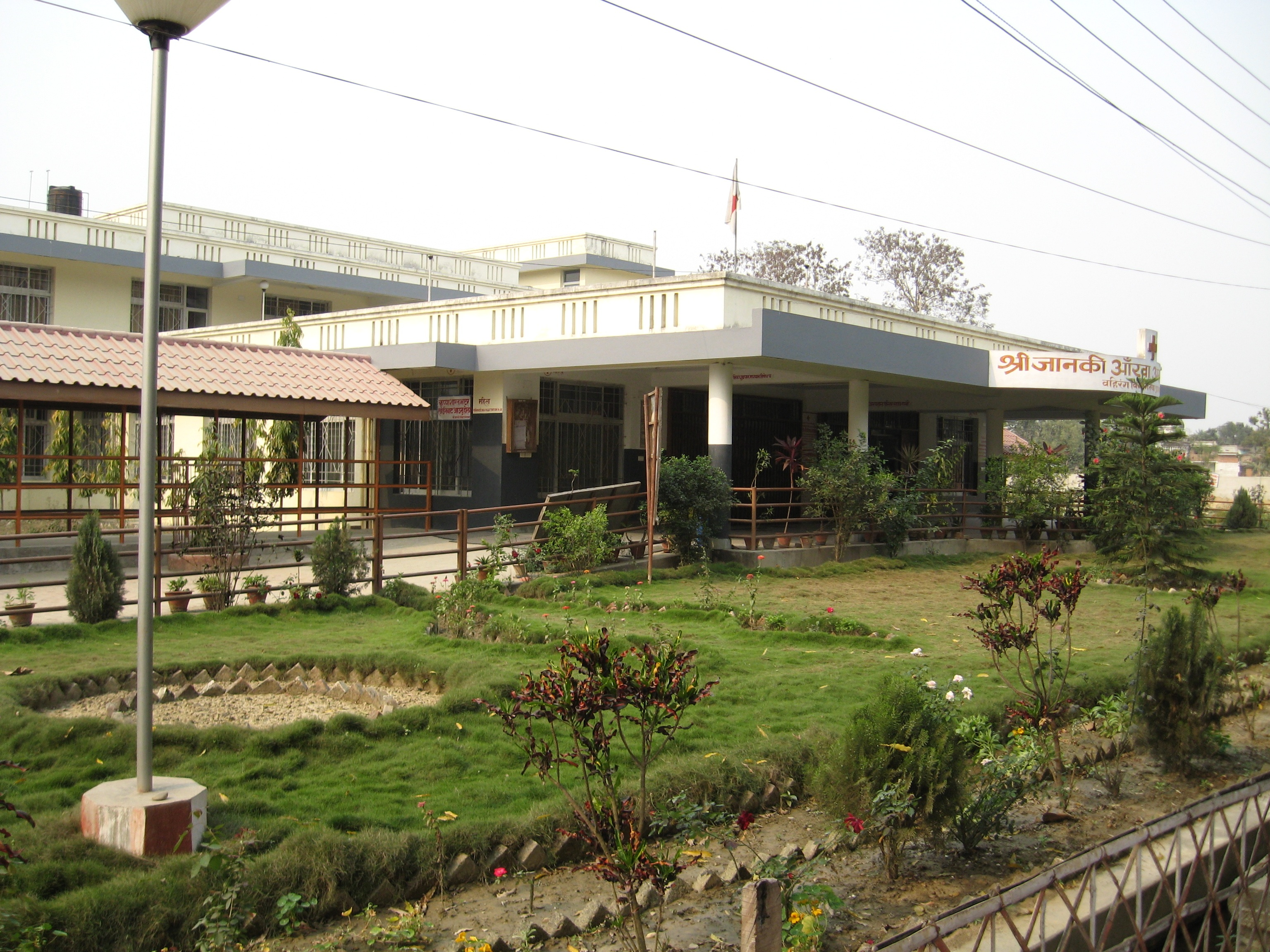 Janakpur, Nepal Hospital for Ophthalmology.